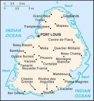 Mauritius map CIA